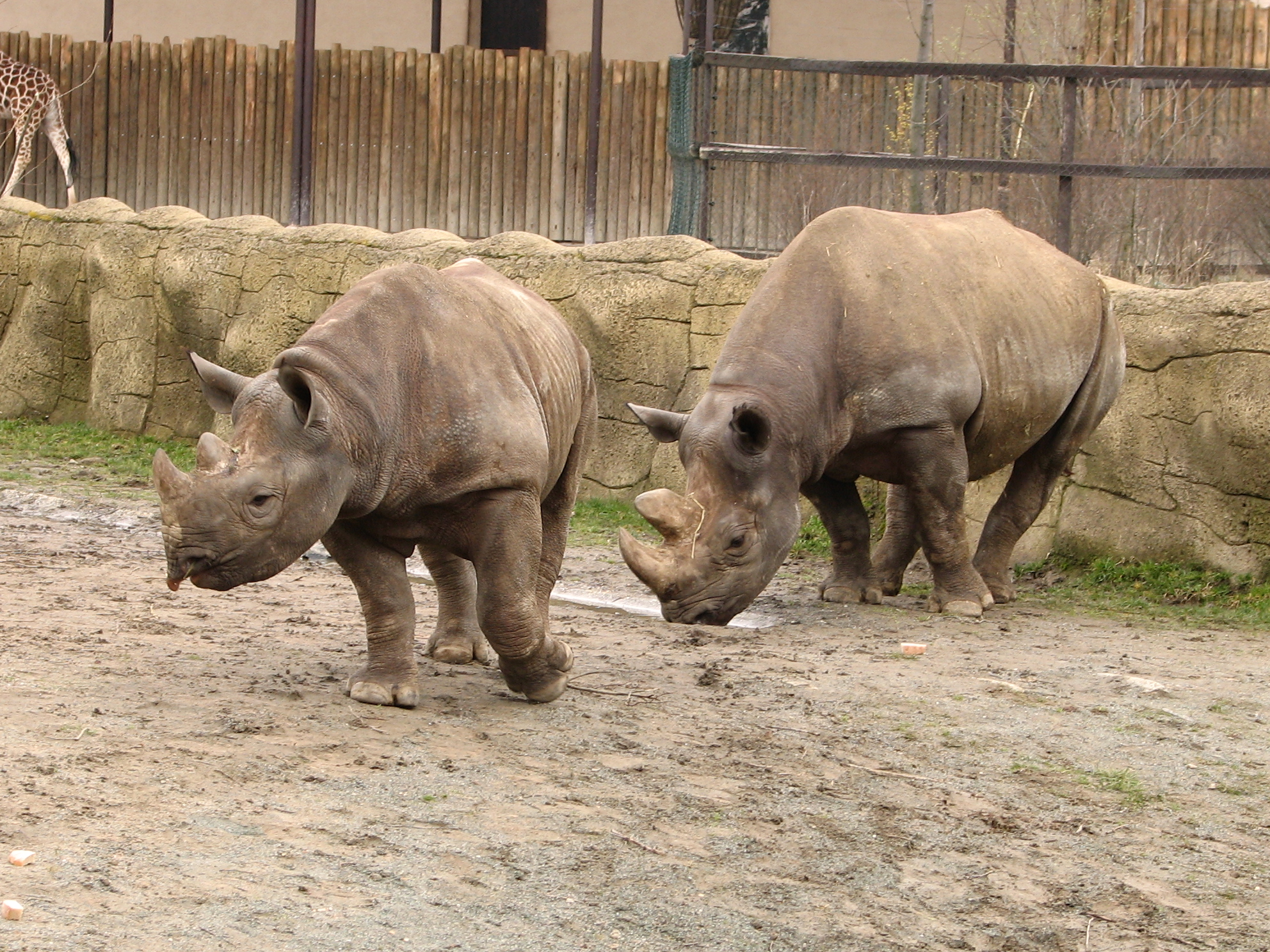 Black Rhino, ZOO Dvůr Králové, Czech Republic